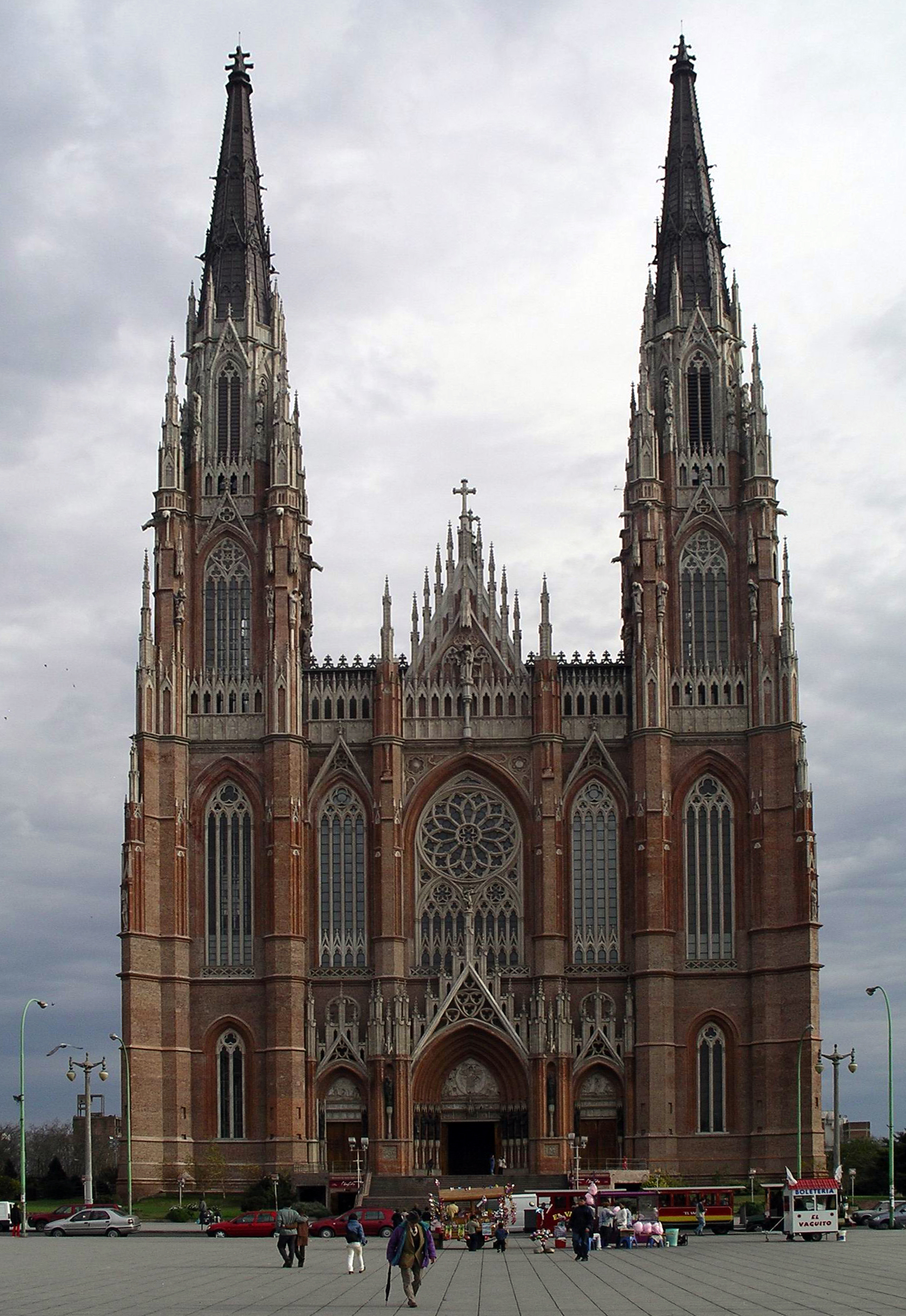 The Cathedral of La Plata, Catedral de la Plata